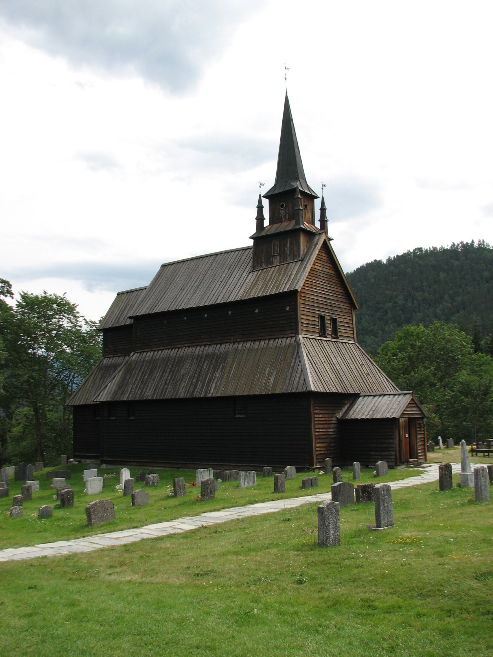 Cascade Church in Norway (1190)